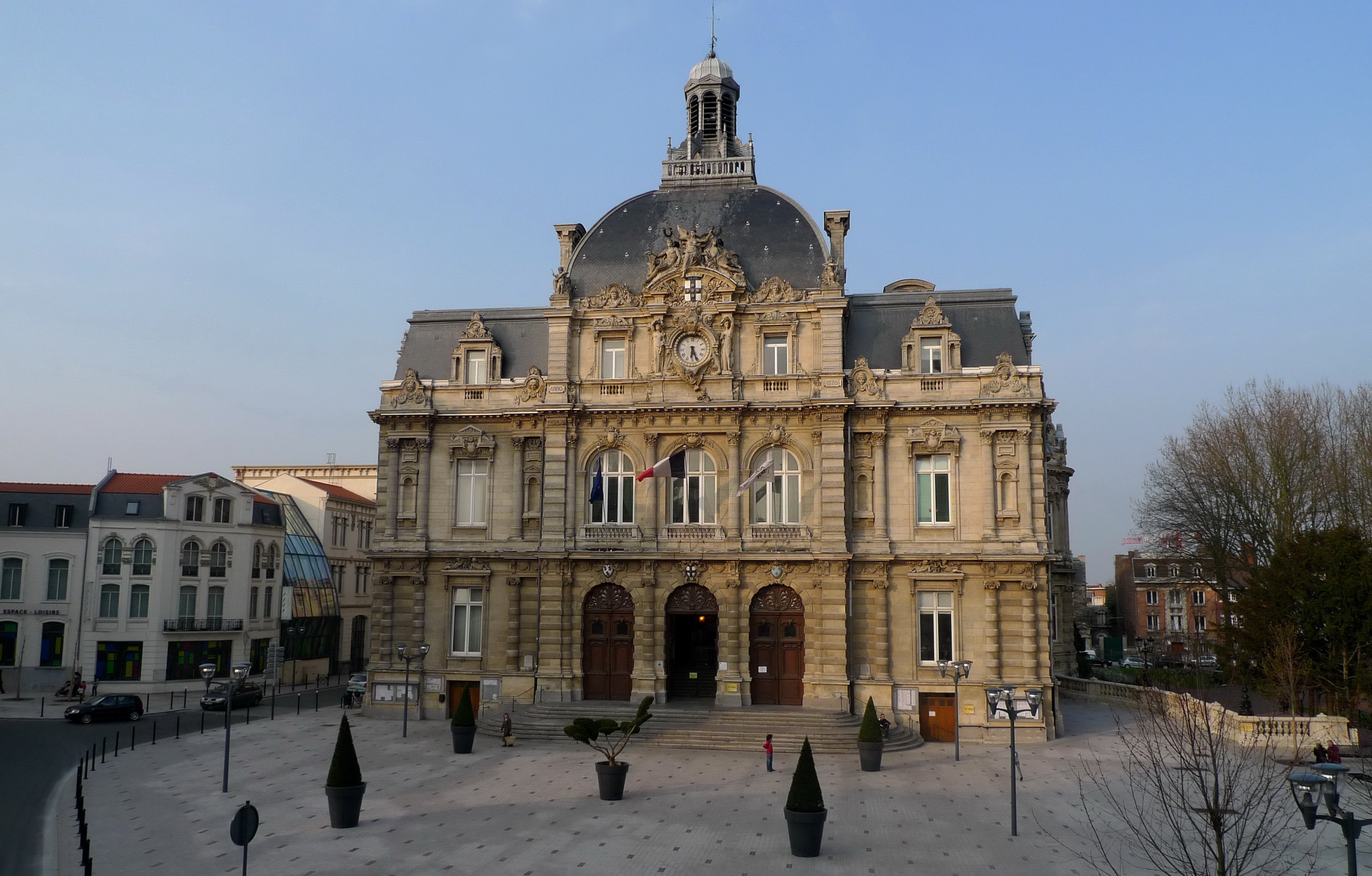 Tourcoing, Town Hall